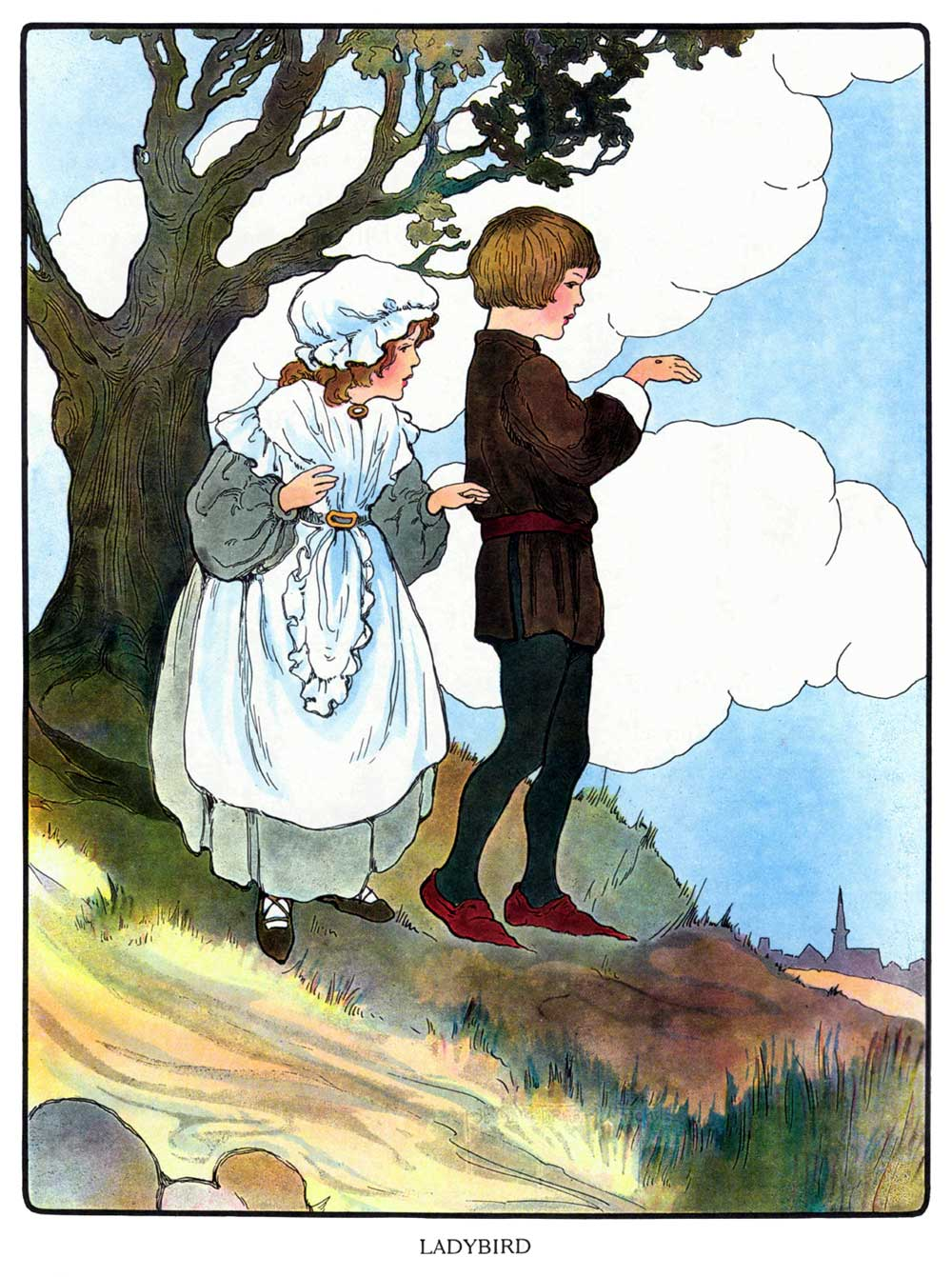 An illustration by Blanche Fisher Wright for the nursery rhyme compilation The Real Mother Goose, published by Rand McNally & Co., Chicago, 1916